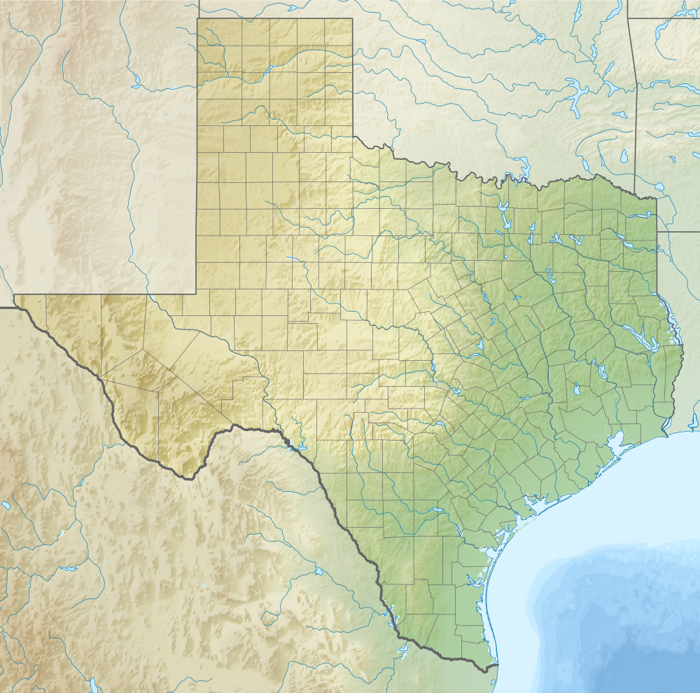 Relief map of Texas (USA).